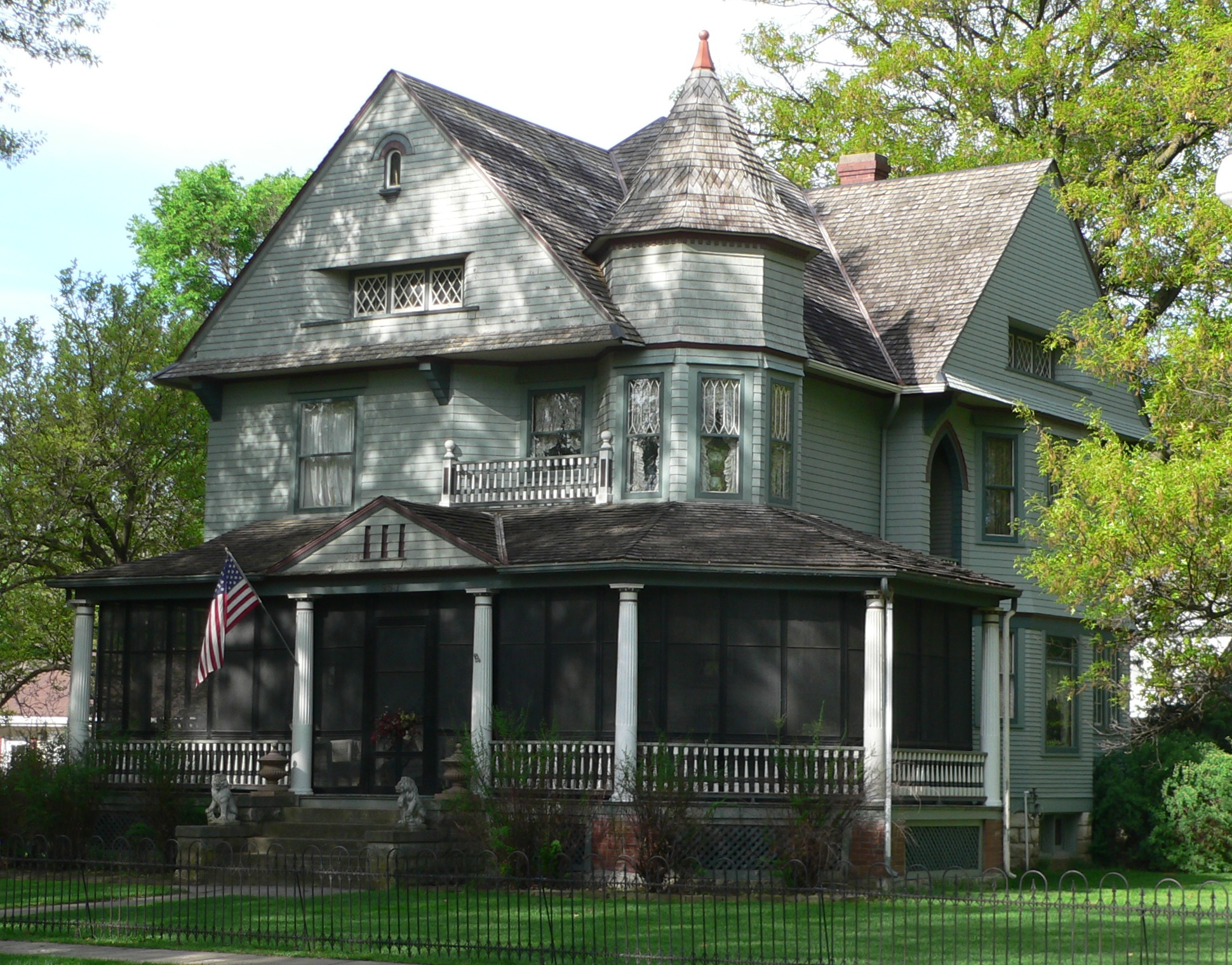 F.J. Kirchman House in Wahoo, Nebraska; seen from the northeast. The Queen Anne house was built in 1903, and is listed in the National Register of Historic Places.